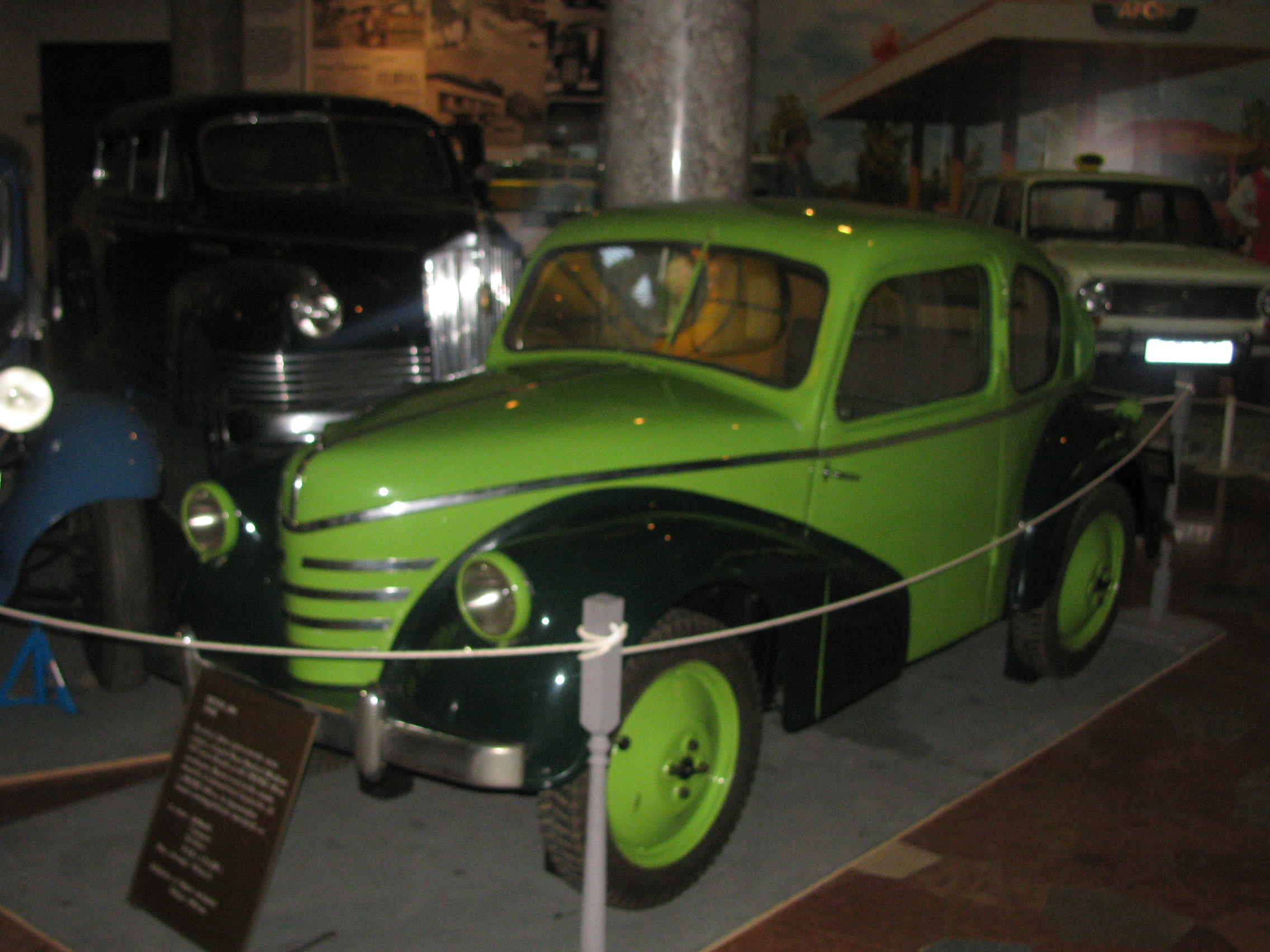 Pente 600 from 1948. Made by Weiss Manfred Acél- és Fémművei. Seats for four people. Powered by a two-stroke, 600 ccm two-cylinder engine of which maximum output is 11.8 kW (16 hp). The top speed is 90 km/h.